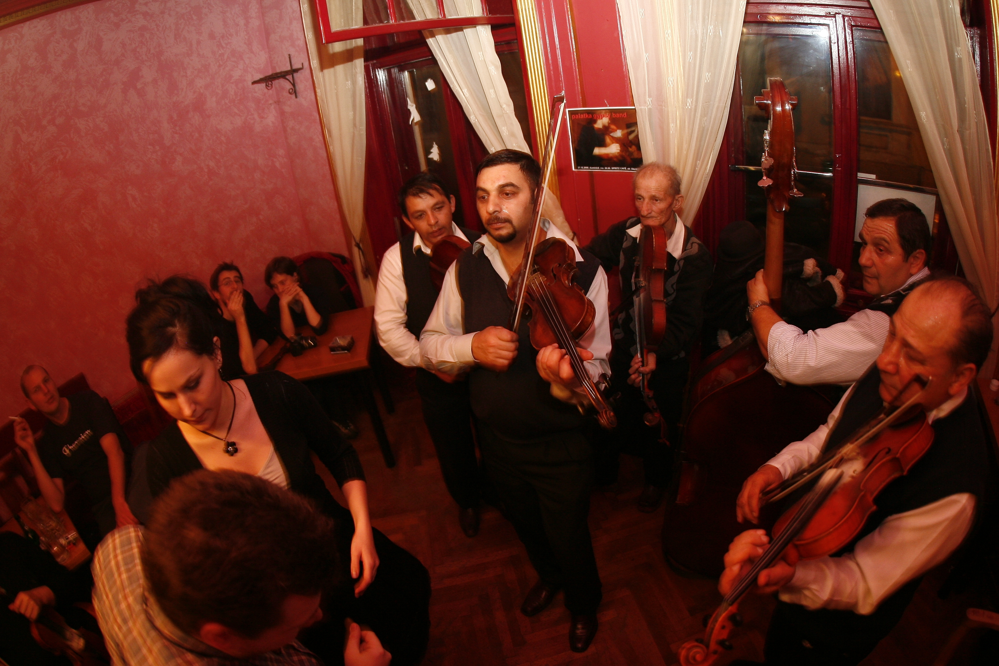 The Palatka Gypsy Band playing in Cluj at Spritz Cafe (27/12/2009), from left to right: Remus, Florin, Ştefan, Nelu, Lőrincz